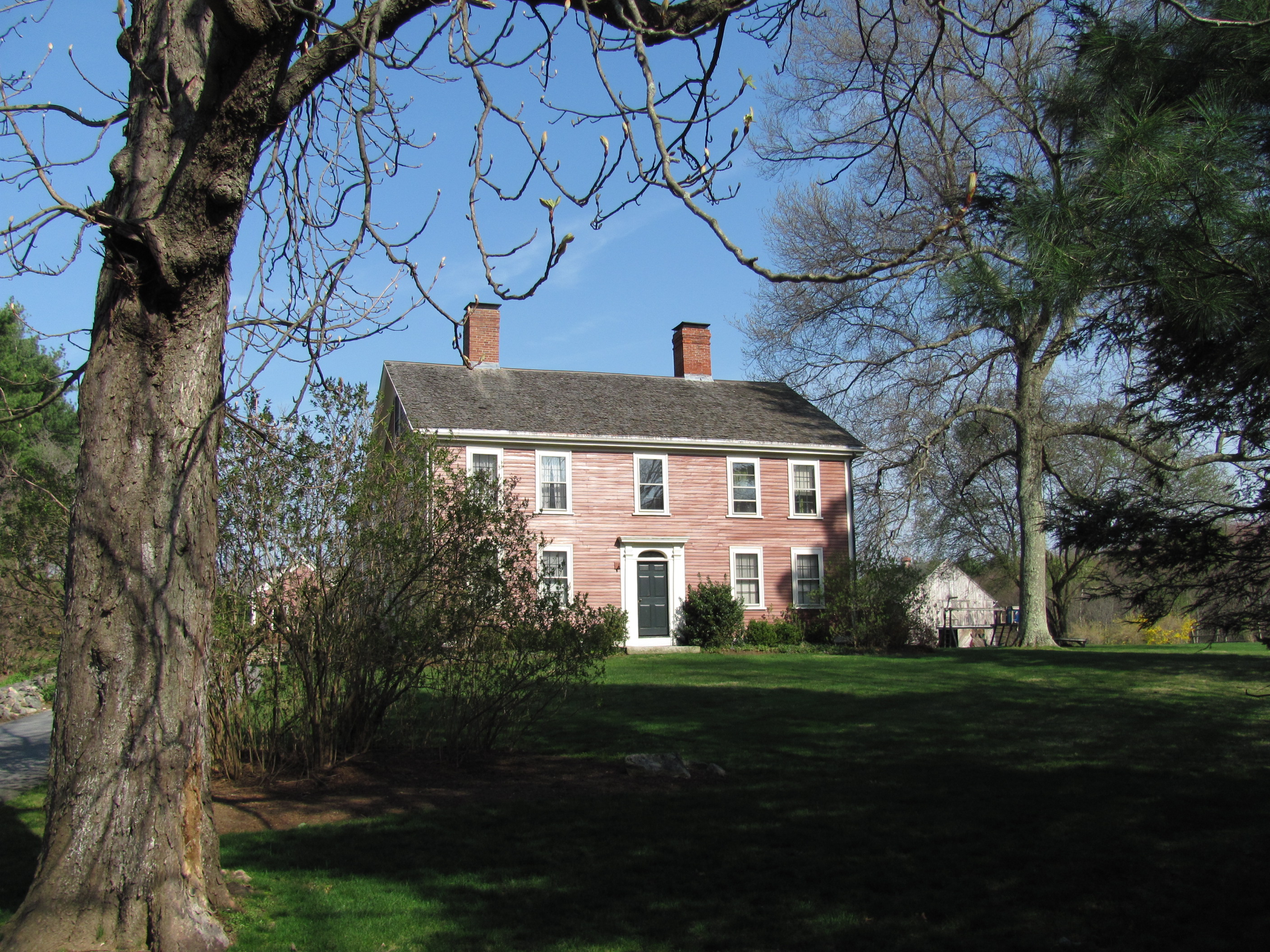 Eleazar Goulding House, Sherborn Massachusetts